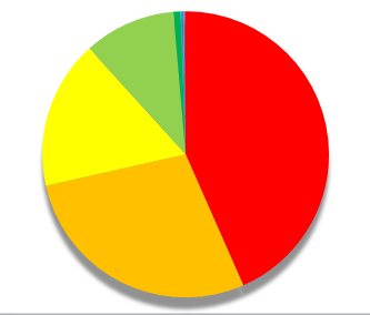 Expressed as a pie chart in the Tokyo gubernatorial election in 2011, the number of votes for each candidate. explanatory notes ■ - Shintaro Ishihara ■ - Hideo Higashikokubaru ■ - Miki Watanabe ■ - Akira Koike ■ - Dr. NakaMats ■ - Yujiro Taniyama ■ - Keigo Furukawa ■ - Takeshi Sugita ■ - Mac Akasaka ■ - Osamu Ogami ■ - Kenji Himeji